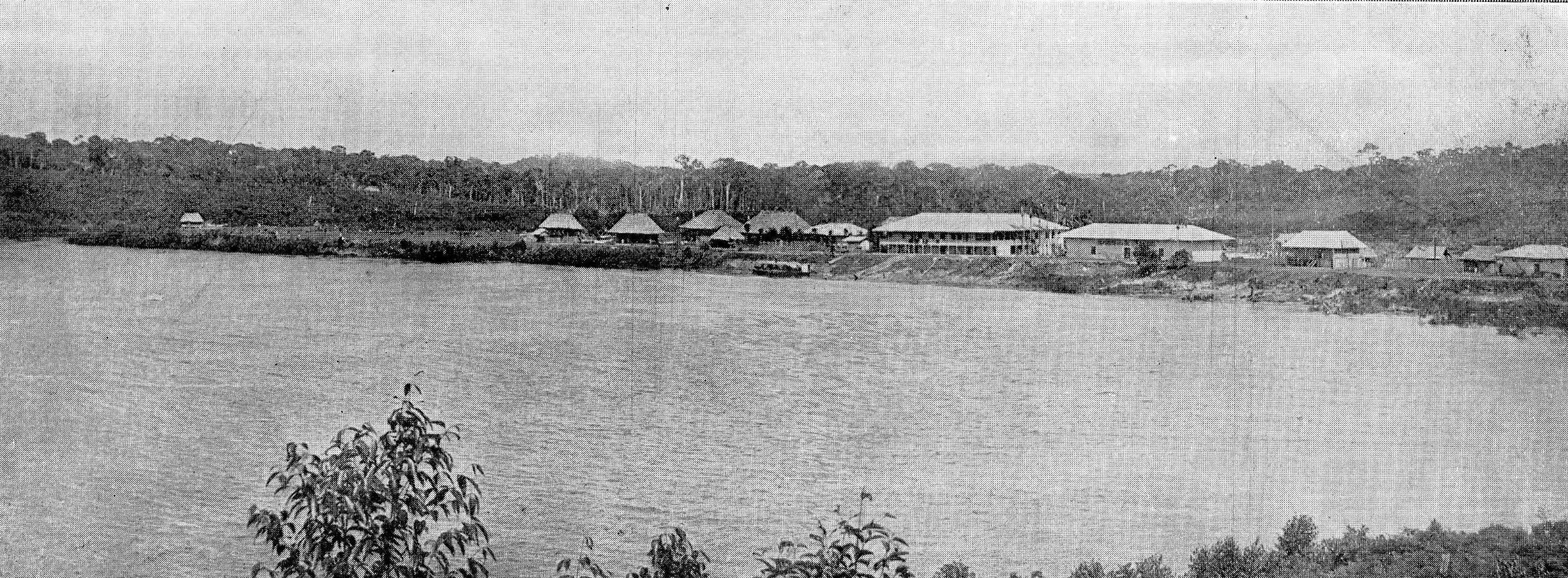 La Chorrera, main "factorerie" (factory) on Putumayo river